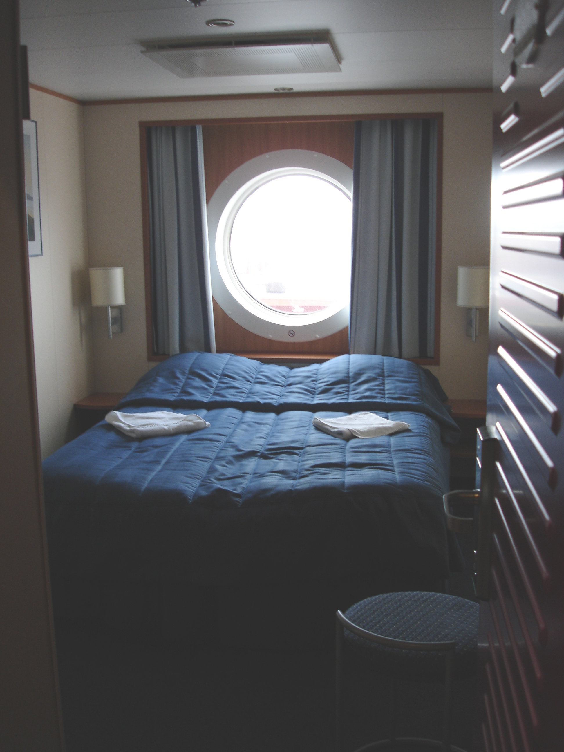 Baltic Princess: A-class cabin